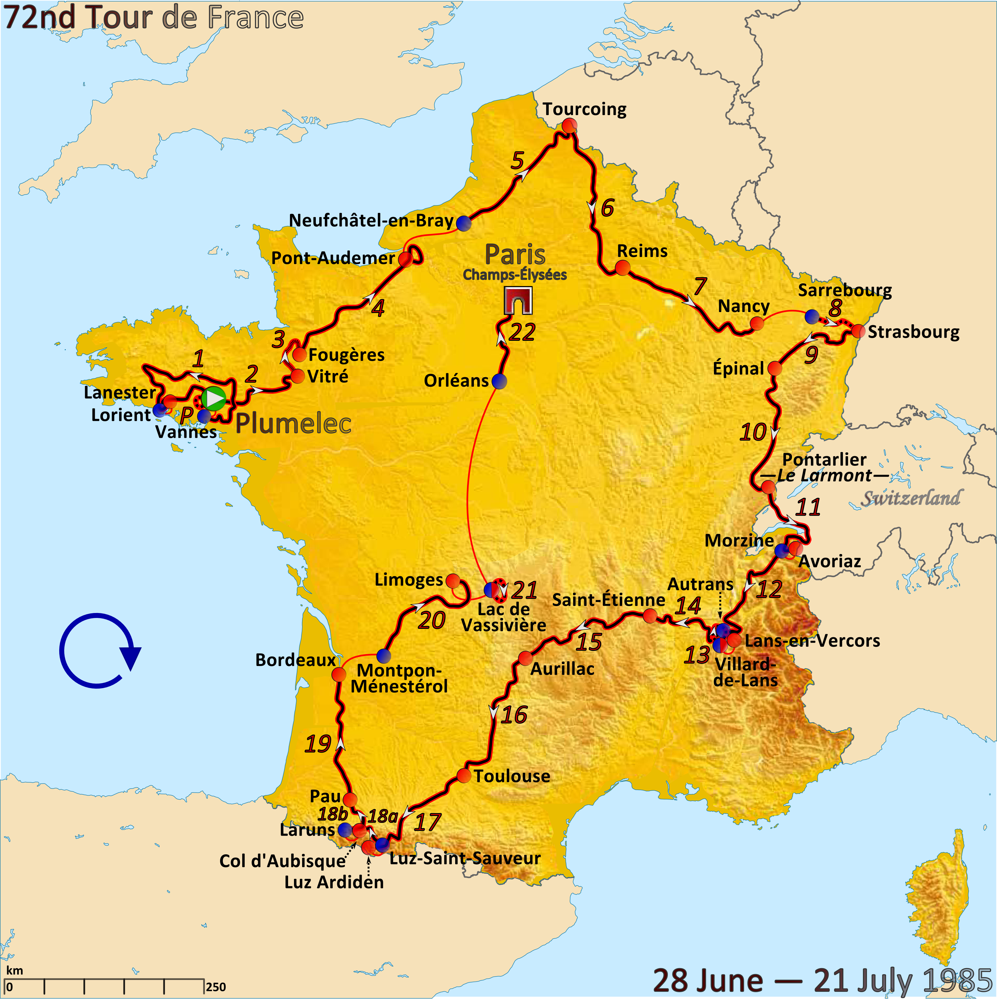 Map of the 1985 Tour de France created in Inkscape using accurate stage maps from touratlas.nl.